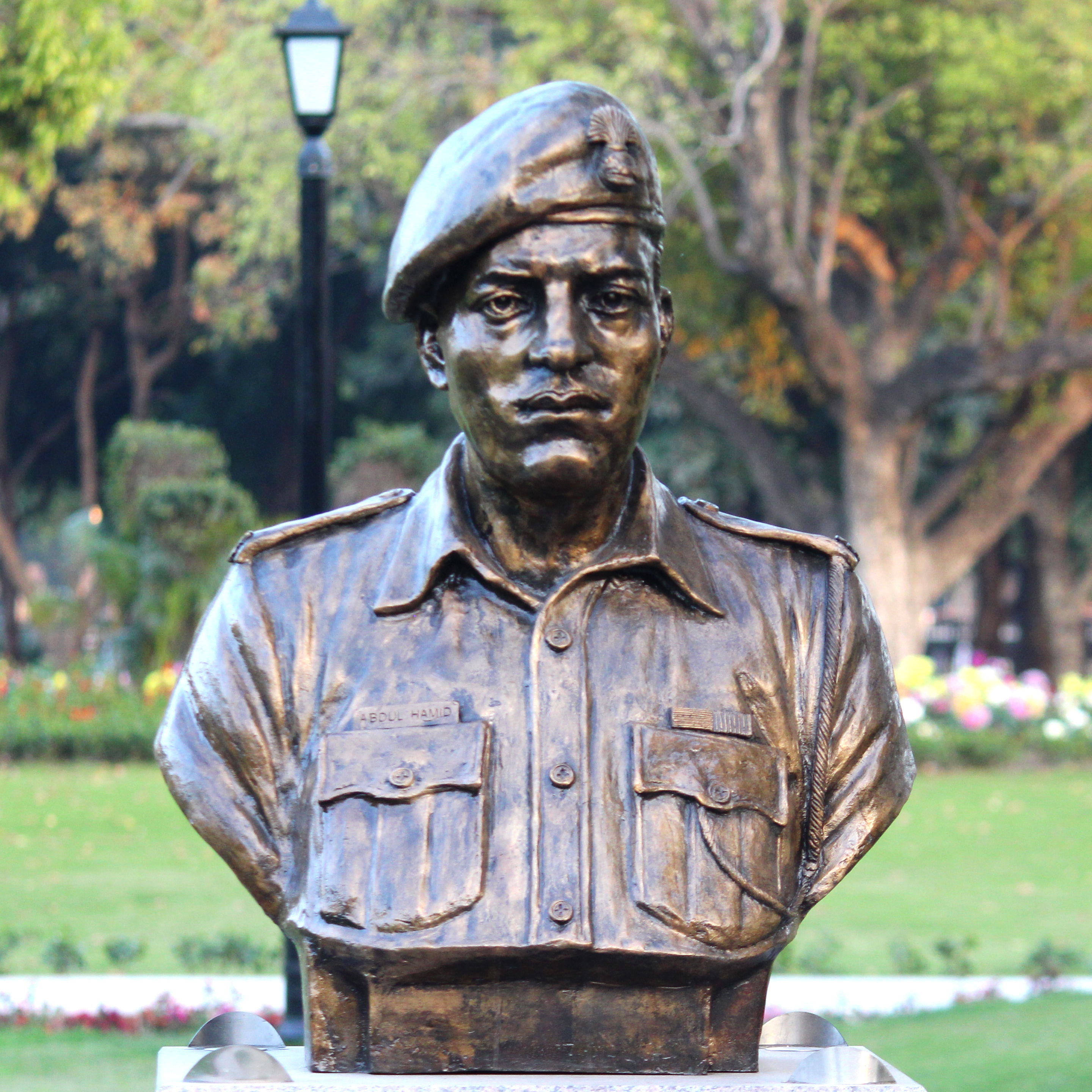 CQHM Abdul Hamid's statue at Param Yodha Sthal (section for Param Vir Chakra recipients), National War Memorial, New Delhi.